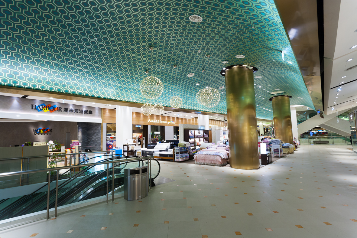 taimall 2015